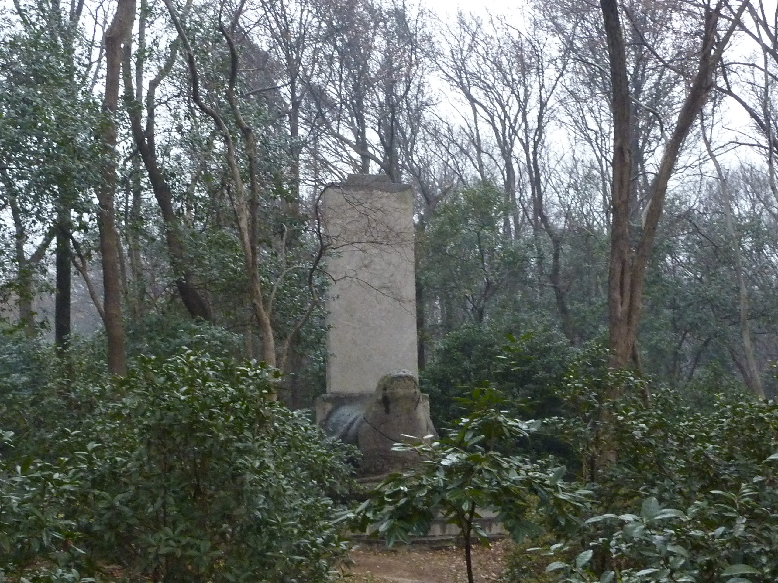 The unifinished bixi turtle with a blank stele. It sits in the Hong Lou Yiwen Yuan (Red Mansion Craft and Culture Park), to the east of Ming Xiaoling proper.